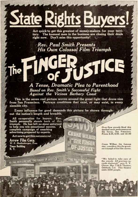 Advertisement for the American crime short film The Finger of Justice (1918), on page 15 of the June 29, 1918 Exhibitors Herald.